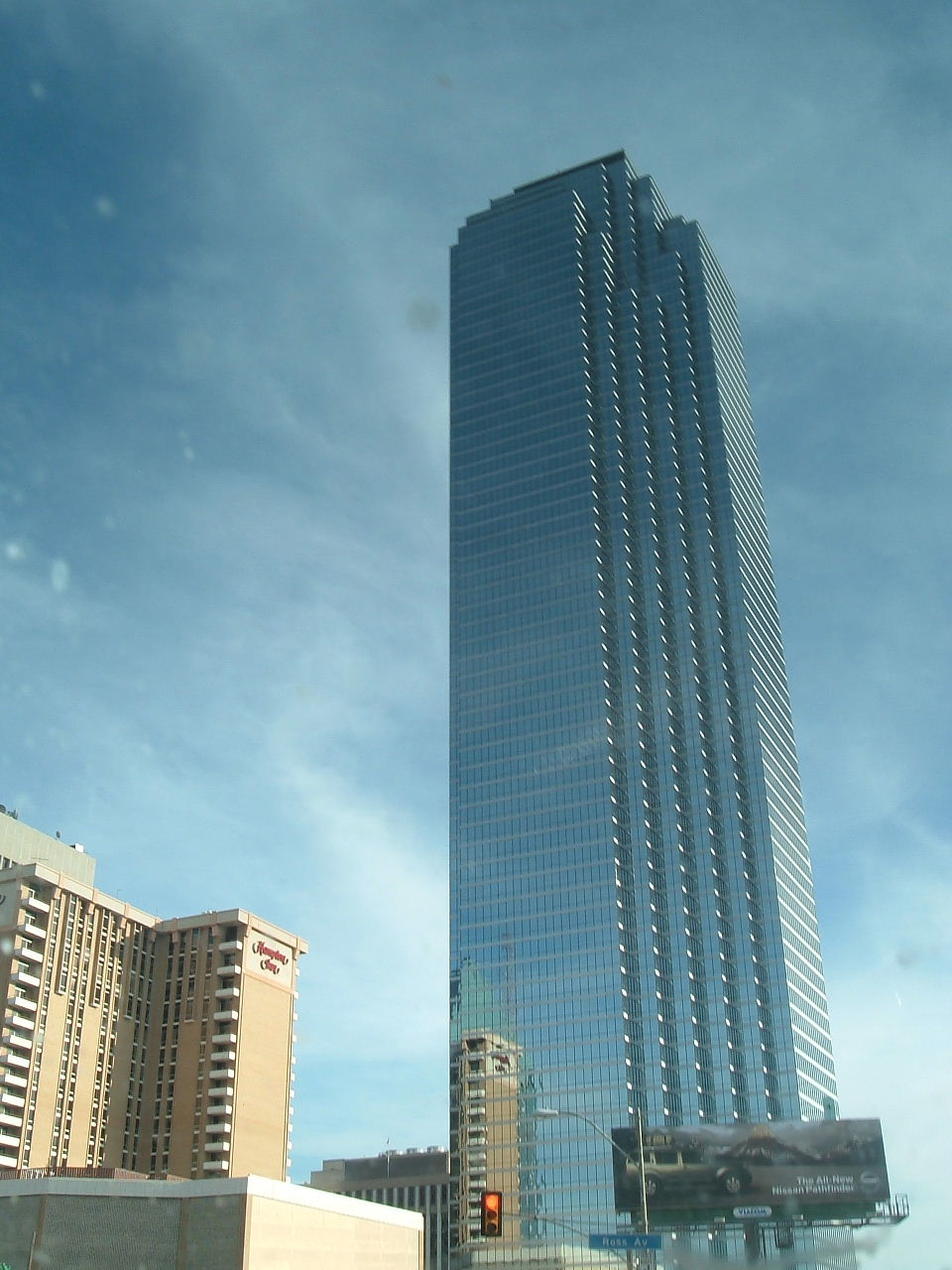 This is the North view of Bank of America Plaza approached on Lamar Street in downtown Dallas.